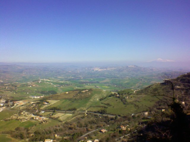 Panoramic view from the Belvedere of Enna, with Mount Etna in the background on the right -Veduta panoramica dal Belveere di Enna, con l'Etna sullo sfondo a destra